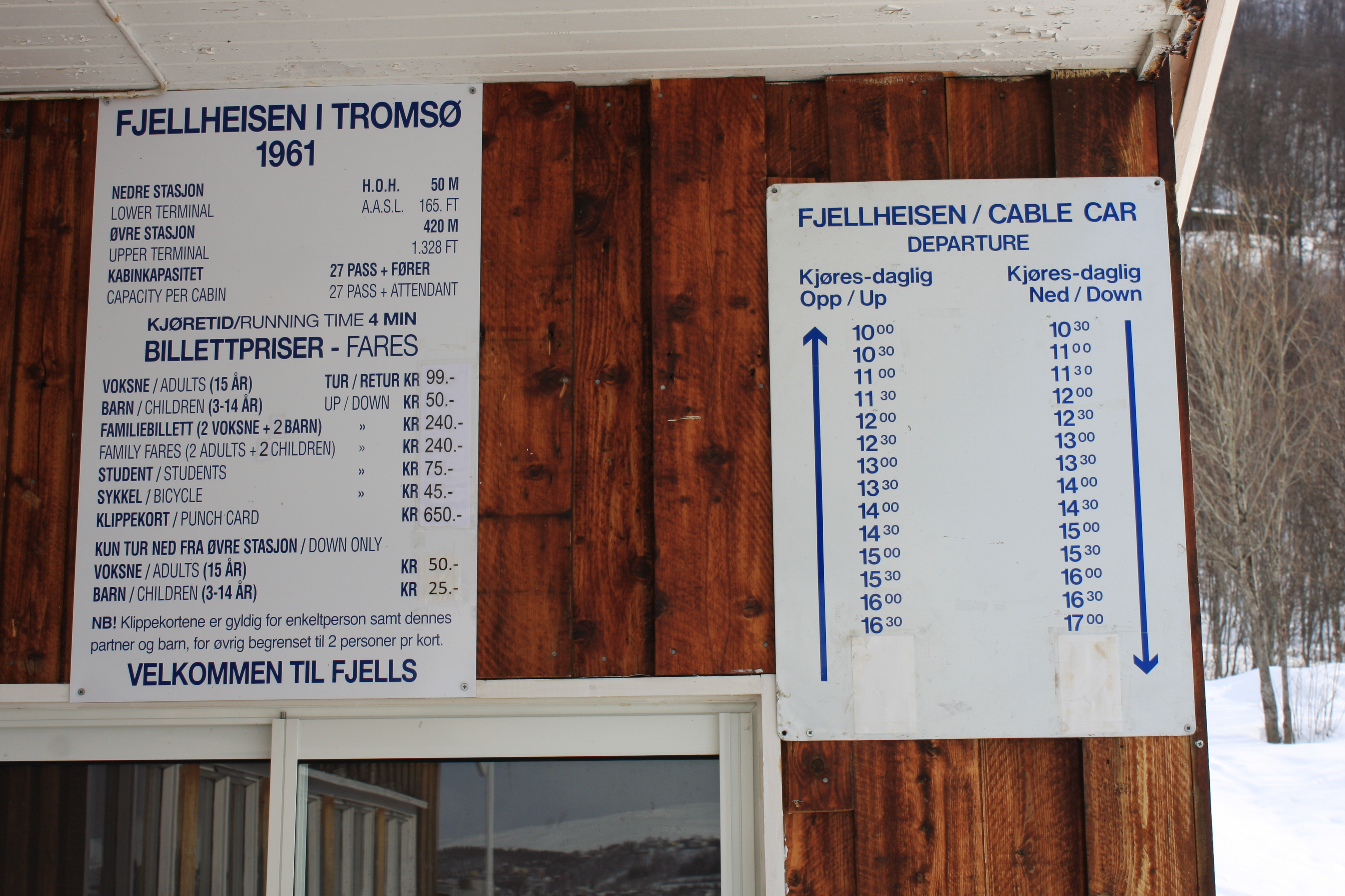 Overview board of Fjellheisen in Tromsø, Norway.